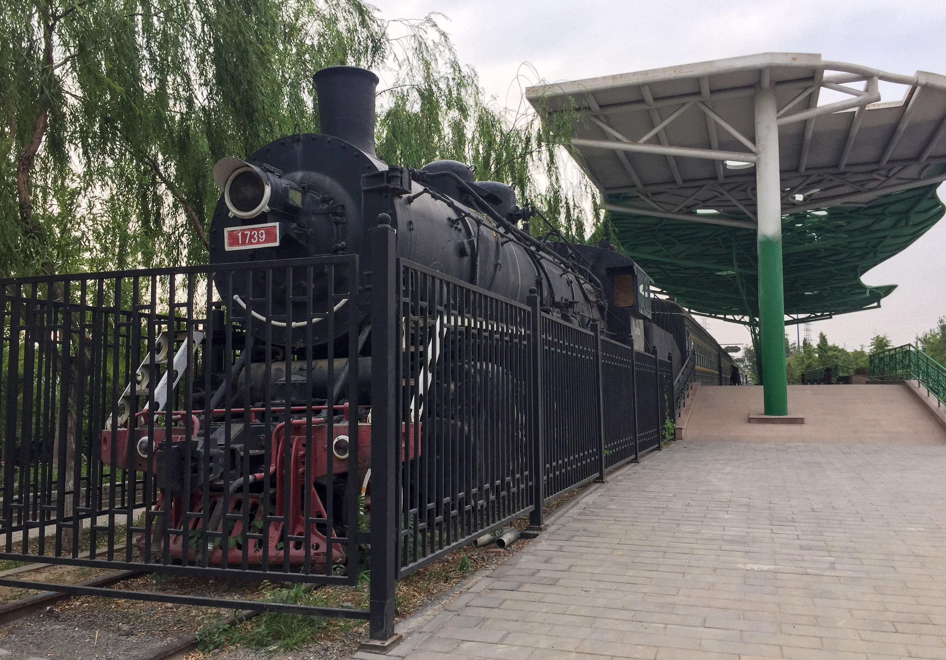 Those 22B coaches were converted to train restaurants in 2014, but it doesn't seem to be in service.